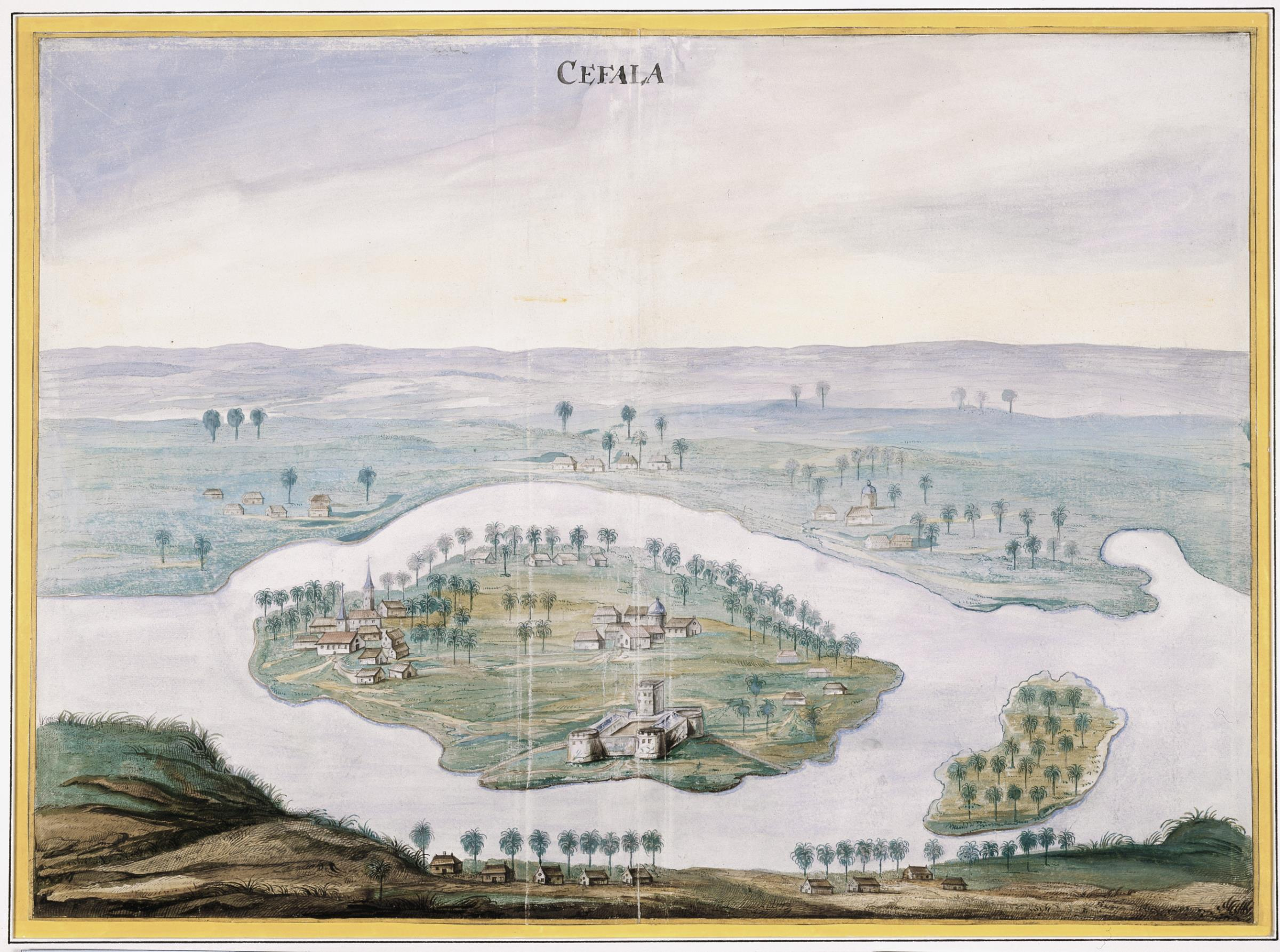 Title in the Leupe catalogue (NA): Gezicht in vogelvlucht op ,,Cefala (Sofala?). Notes on reverse 50 [probably refers to an old chart number]. The picture shows a bare landscape with in the centre an island with on it a fortress and a number of houses. The island is surrounded by the river; on the mainland some houses are also shown.